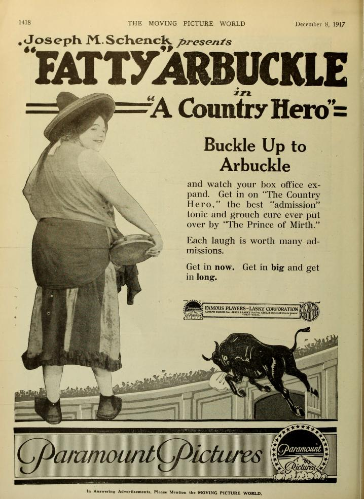 Movie Picture World December 8, 1917, advertisement for the American film A Country Hero (1917) with Roscoe "Fatty" Arbuckle.